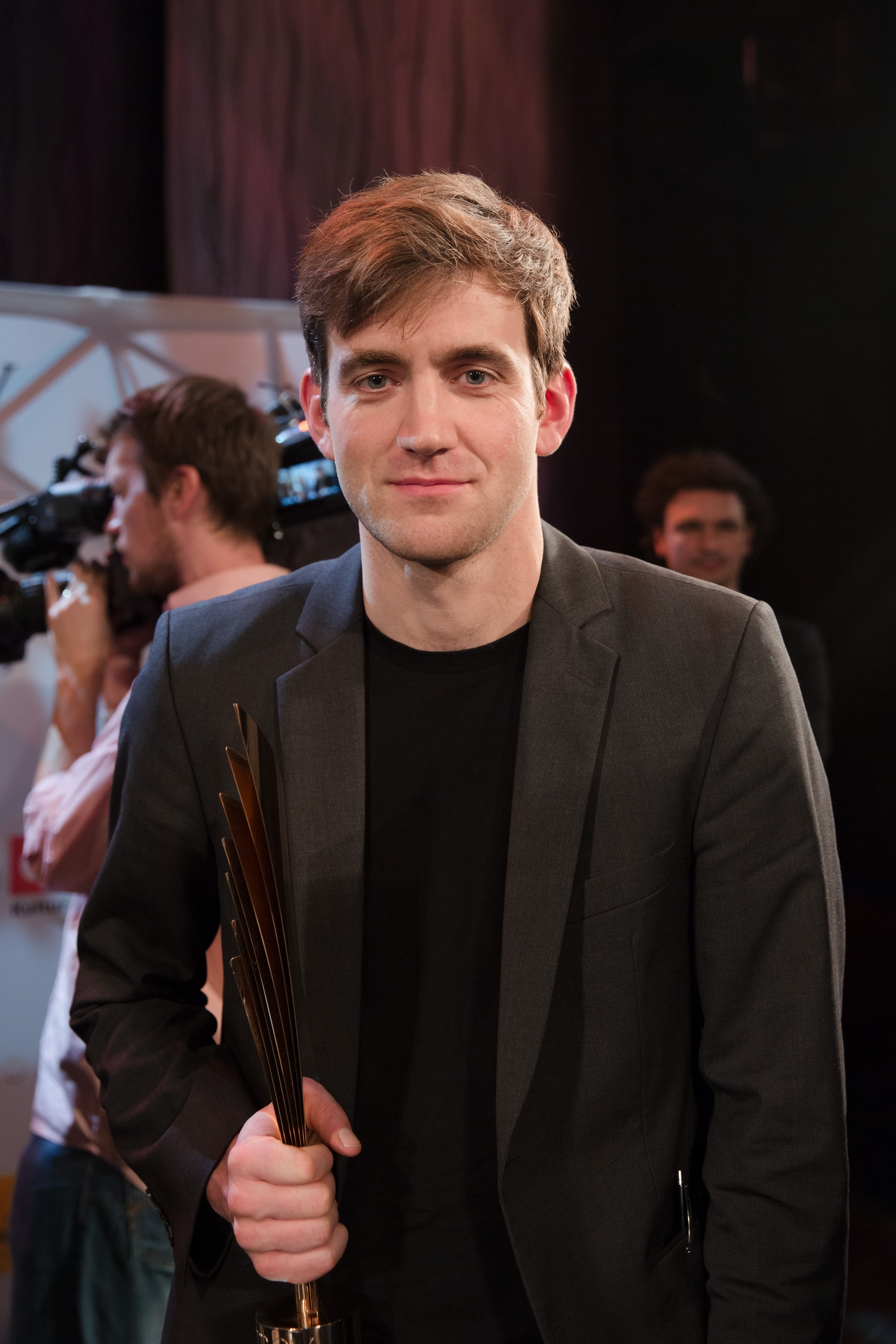 Wolfram Lotz at the Nestroy Theatre Awards 2015 (Ronacher, Vienna, Austria).